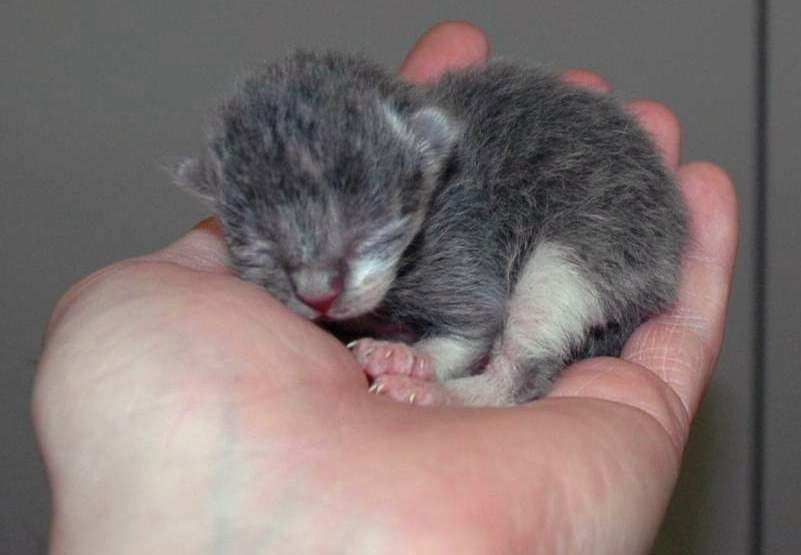 Photograph of a kitten one day after birth.